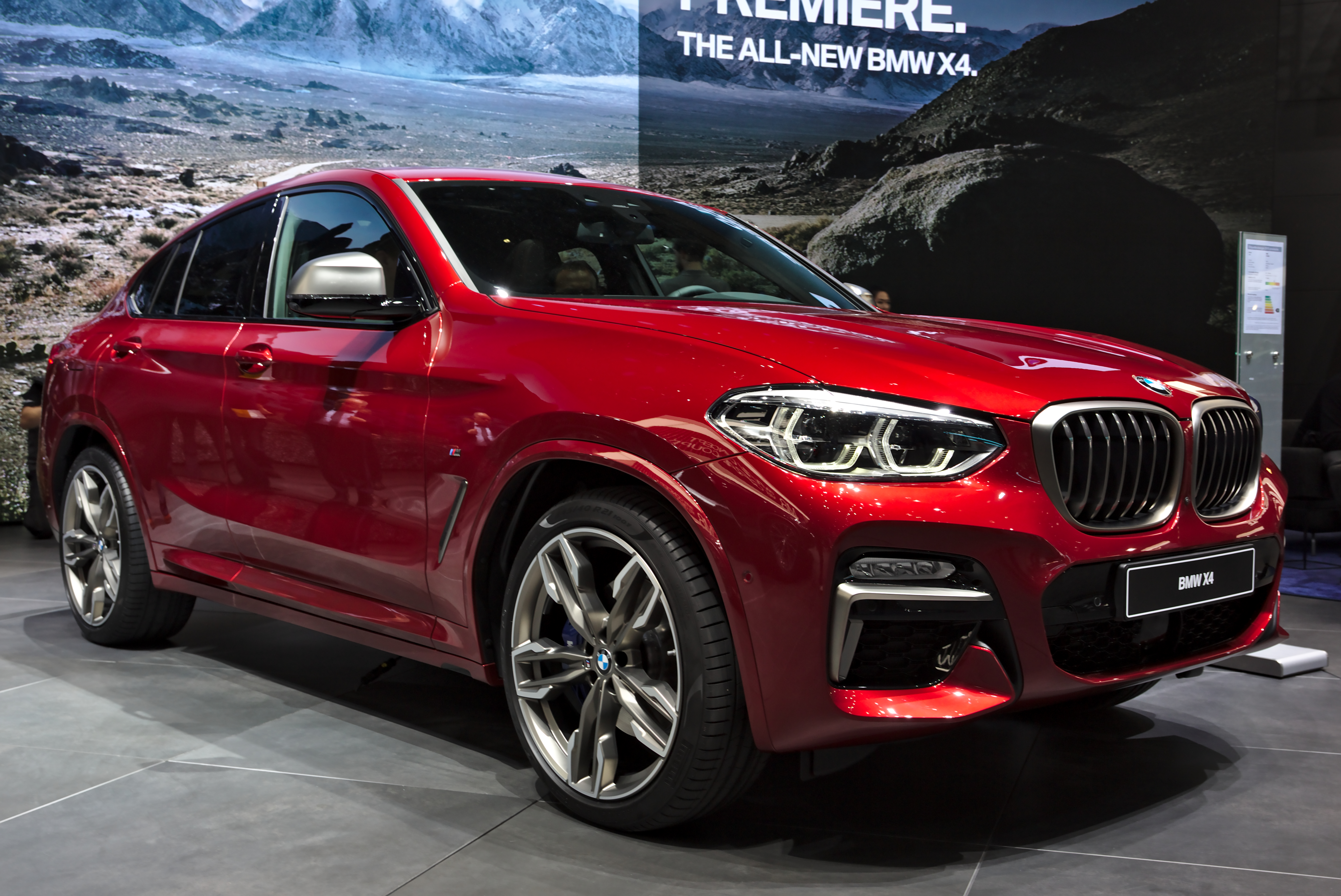 BMW X4 at Geneva Motorshow 2018